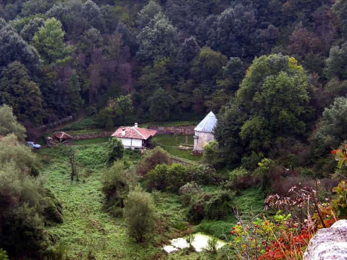 Demir baba tekke - tomb of the Alians' saint Demir baba, near Razgrad, Bulgaria